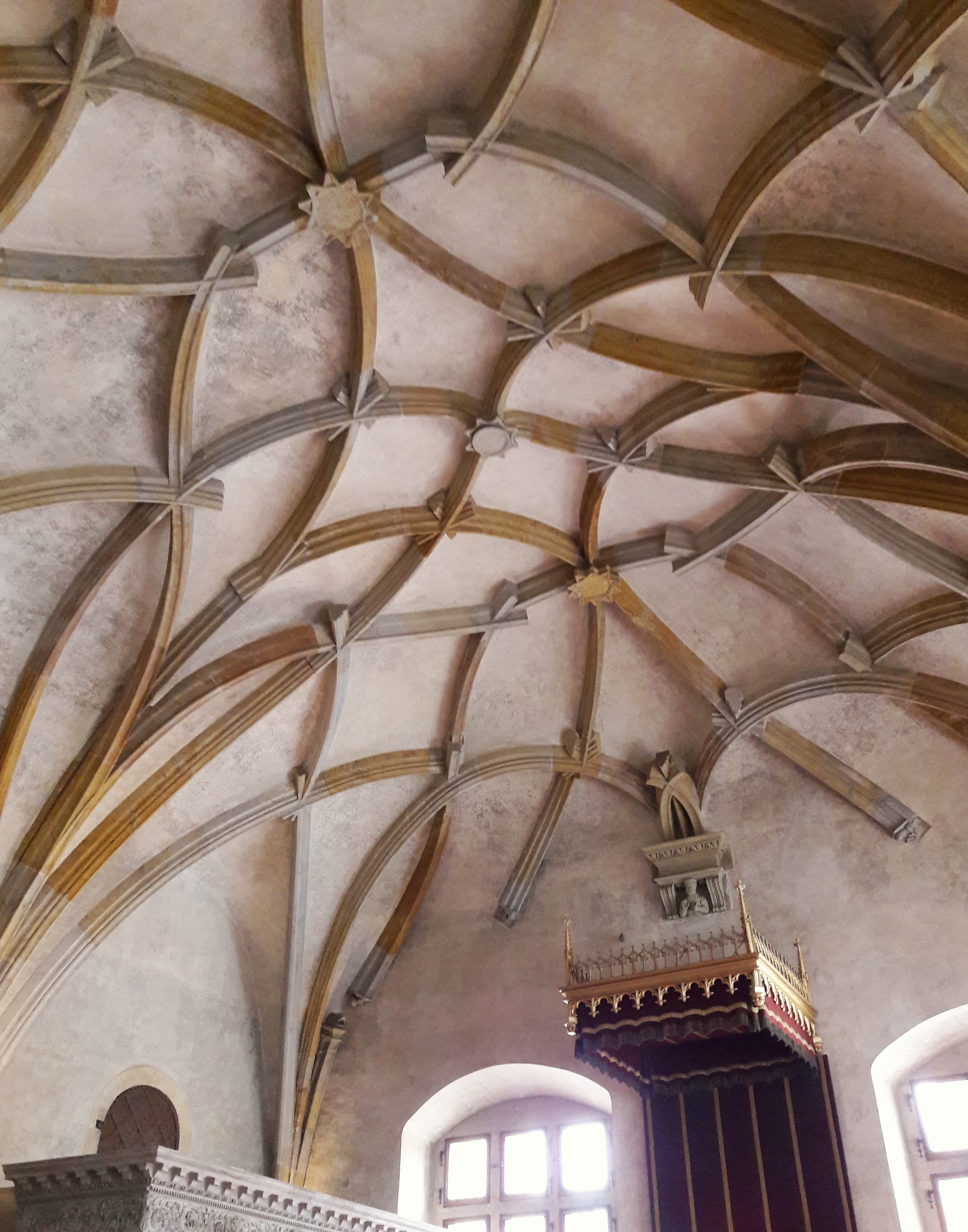 Hall of Diet at the Prague Castle.